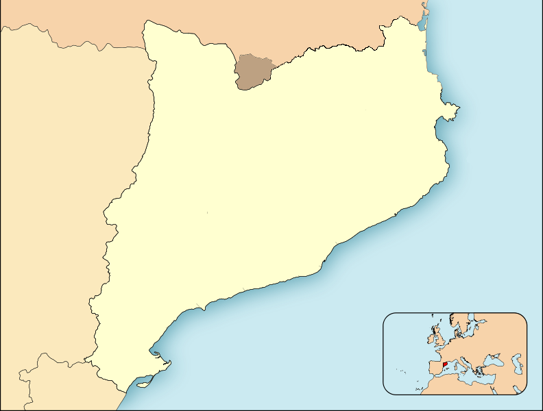 Map of Catalonia 1349-1652